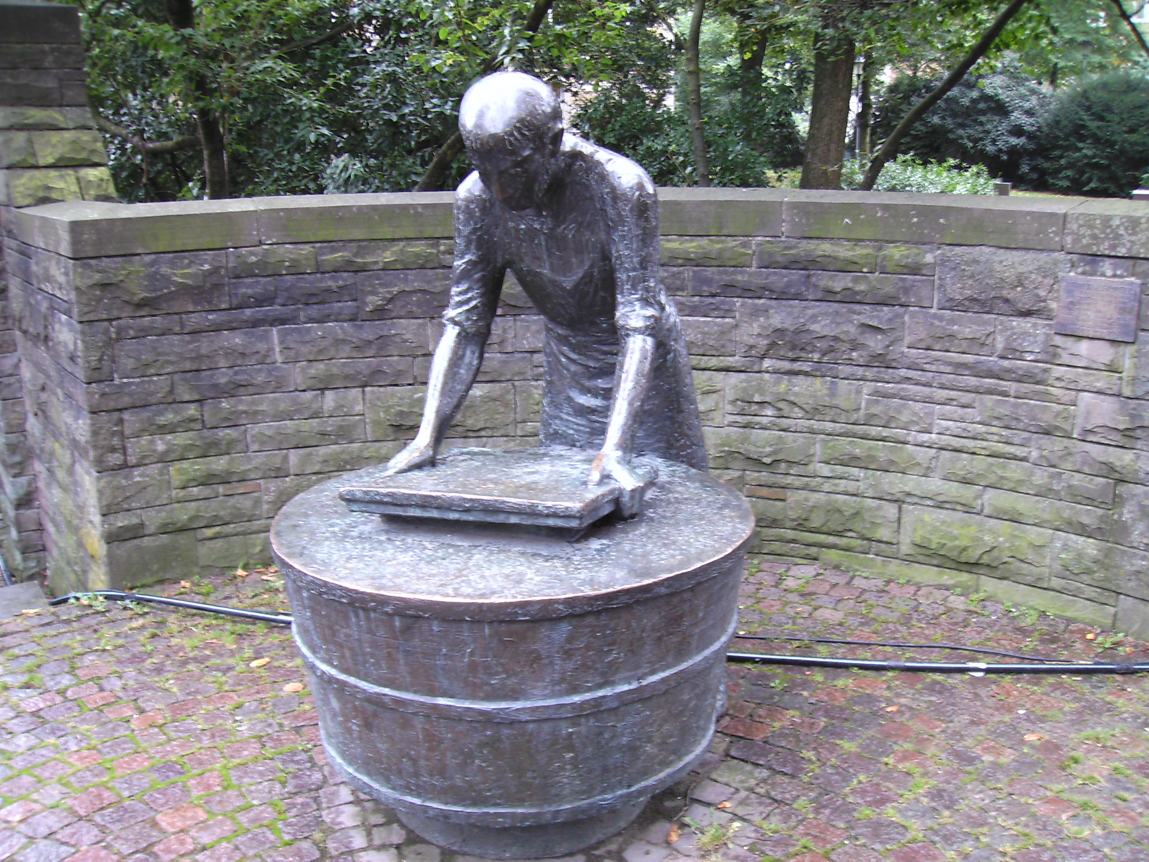 The making of paper 1582 – 1982 in Bergisch Gladbach, Germany. A sculpture by Werner Franzen.